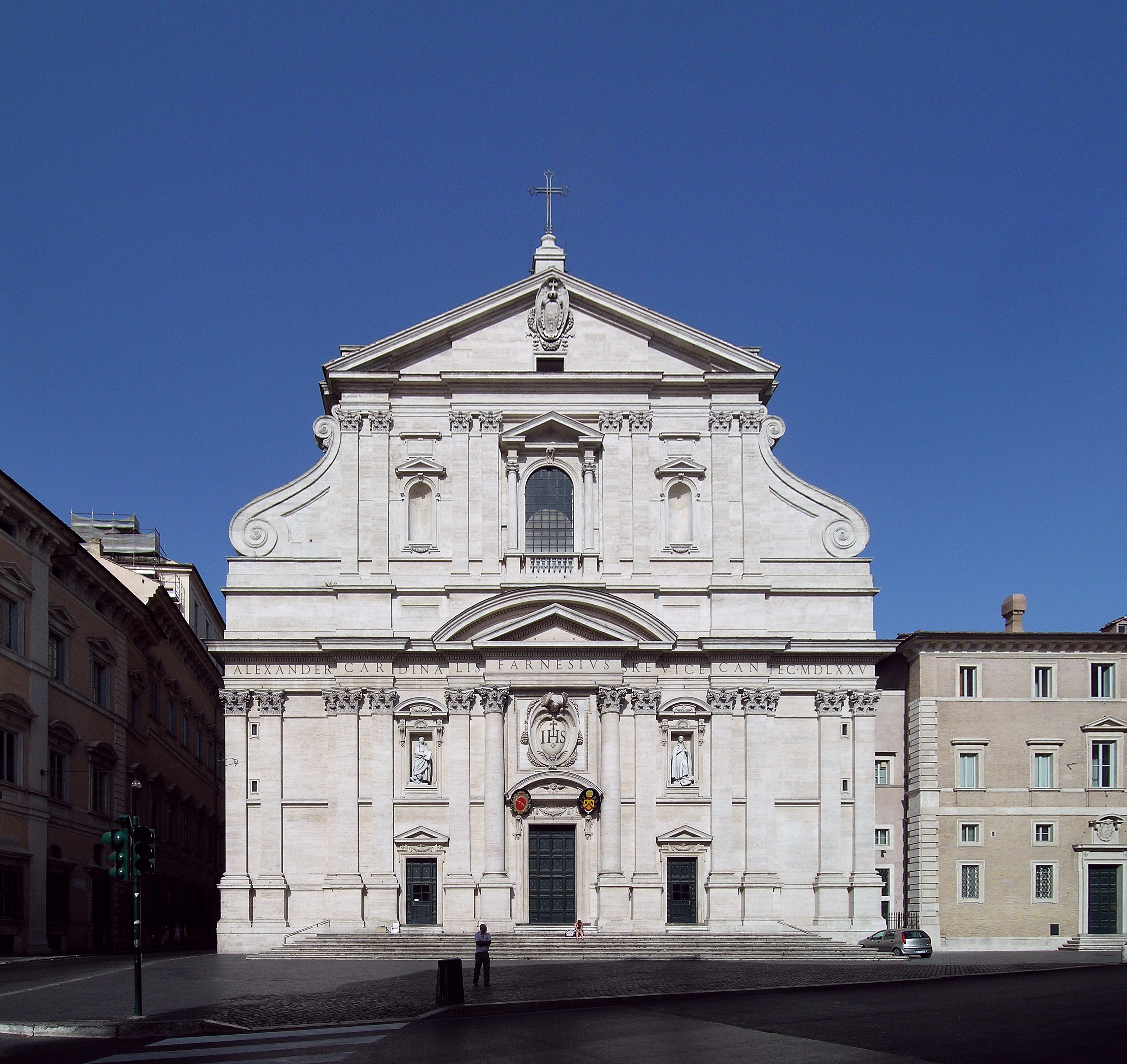 facade of Chiesa del Gesù, a church in Rome, Italy. I took 4 different pictures of different views, then I stitched them together with hugin, correcting the prospective, too. Post-processed with Gimp